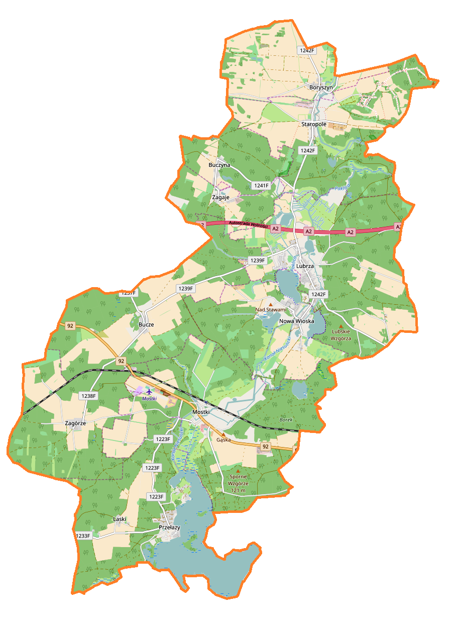 Location map